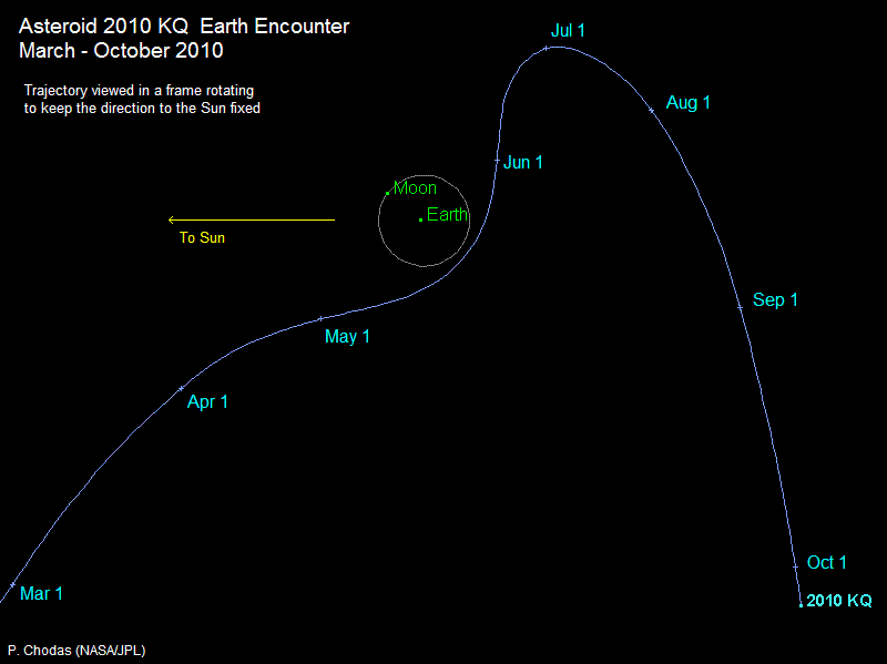 Orbit of asteroid-like body 2010 KQ, presumed to be an artificial object of unknown origin, probably a rocket booster